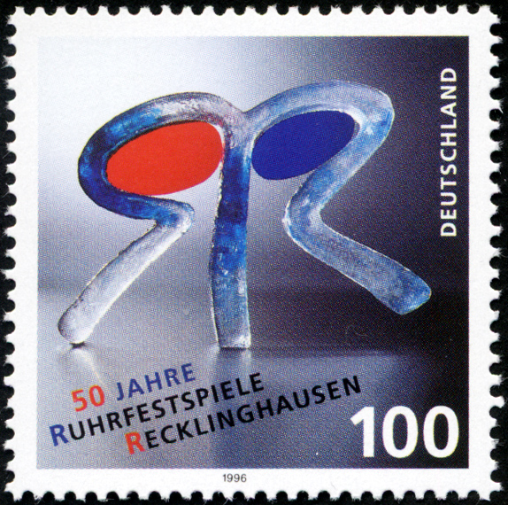 Stamp from Deutsche Post AG from 1996, 50th anniversary of Ruhrfestspiele